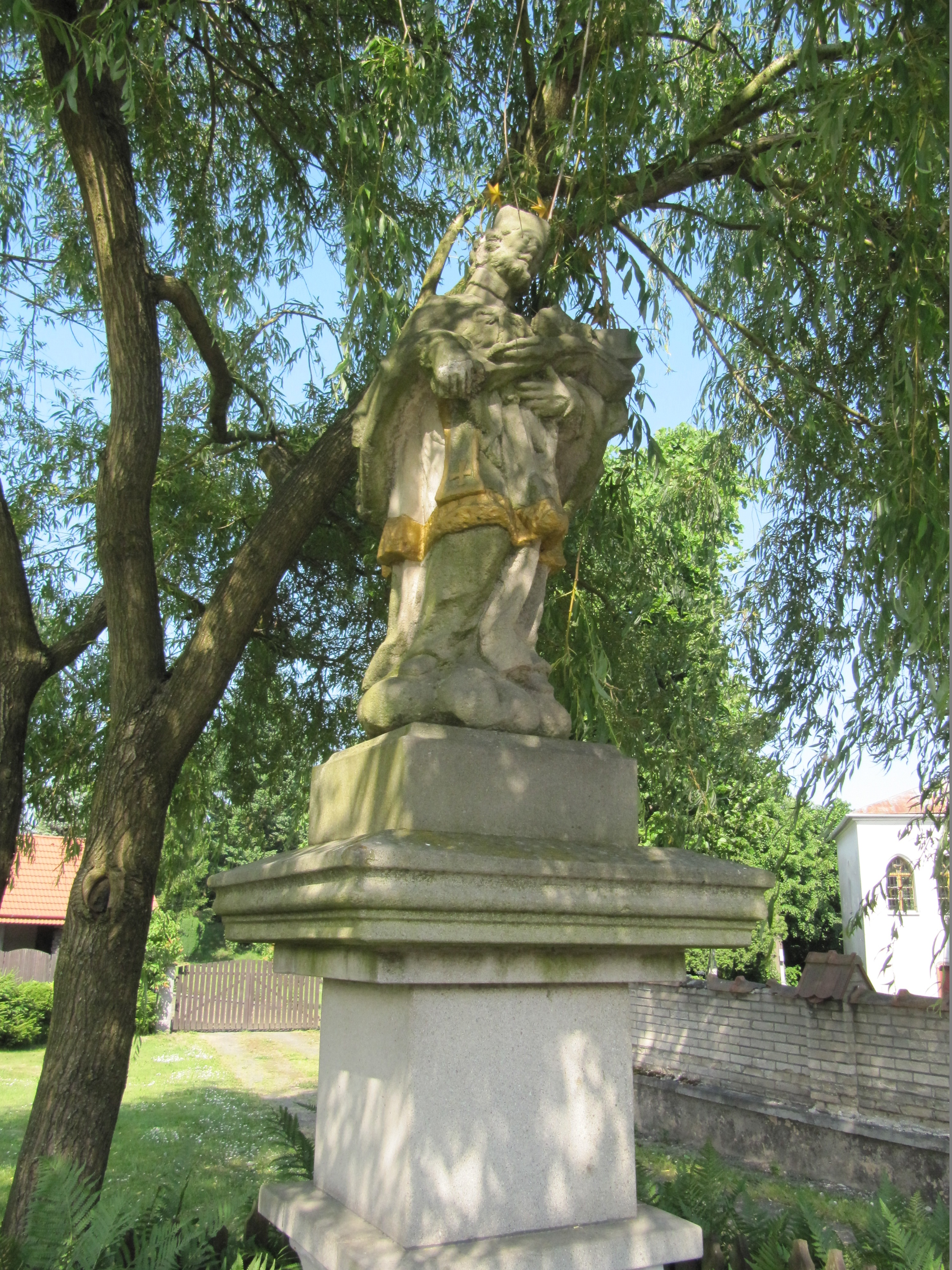 Vítkov, Opava District, Czech Republic, part Klokočov.